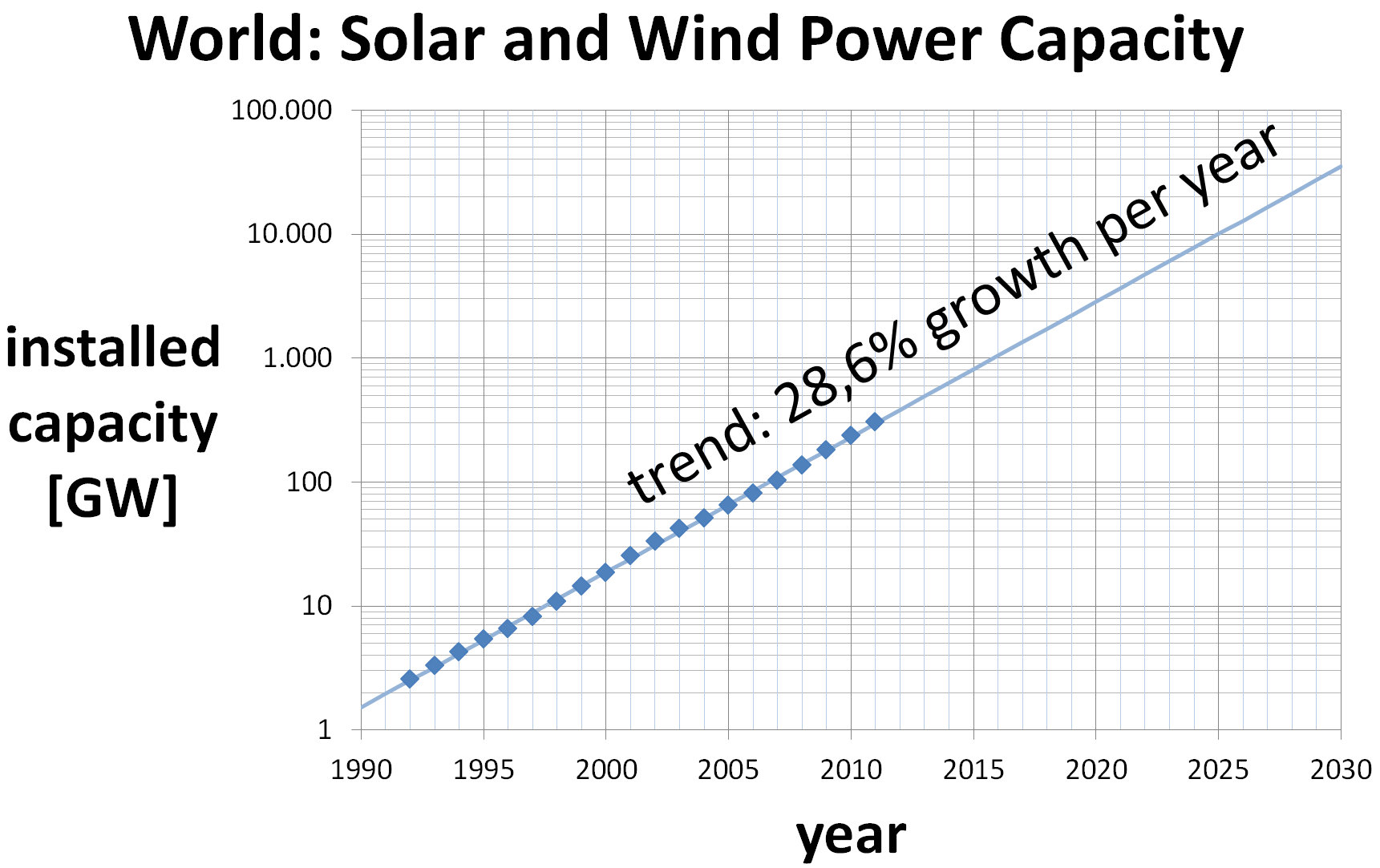 Logarithmic plot of the global installed wind and solar capacity